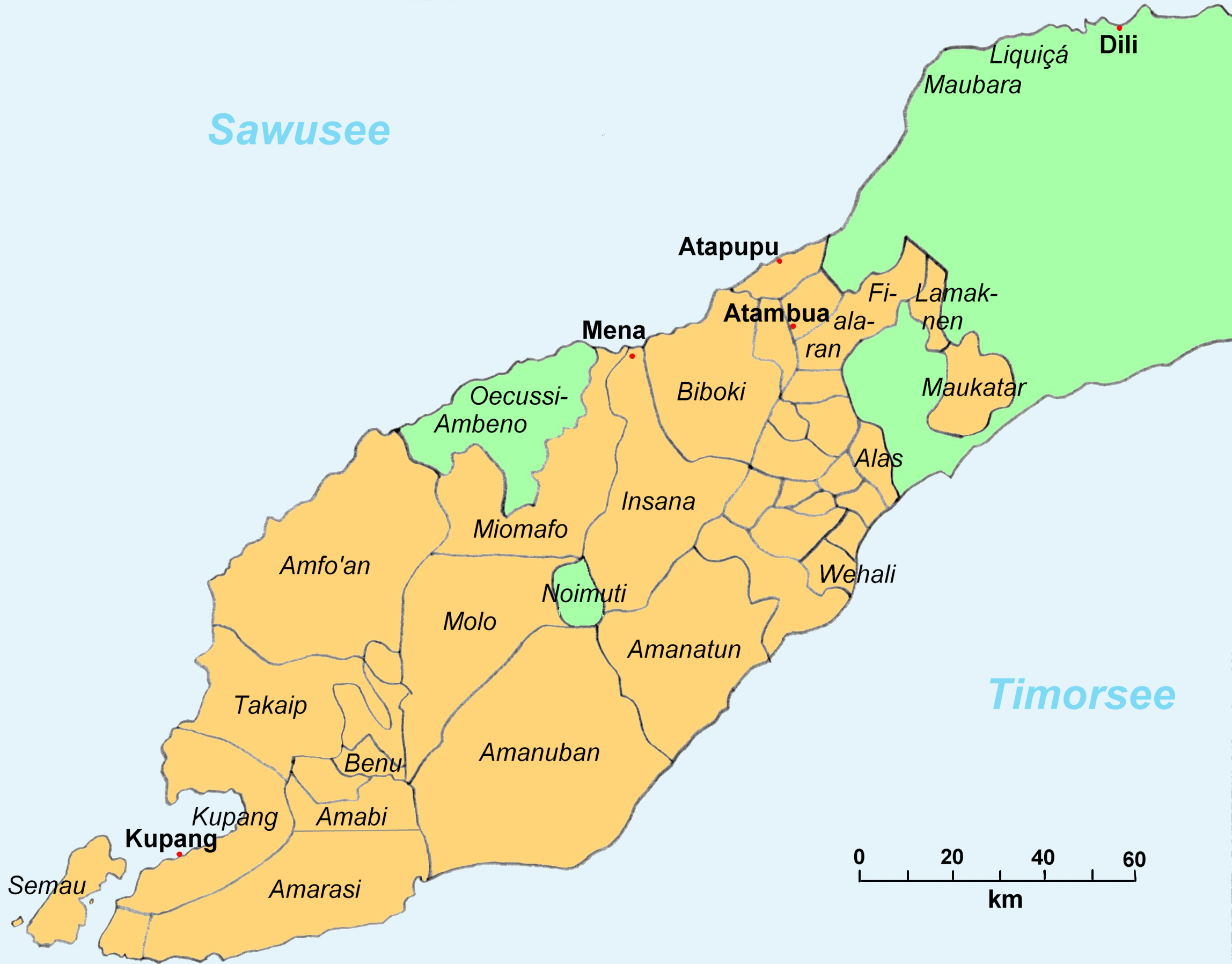 Western Timor in 1911; orange: Dutch; green: Portuguese. Borders are showing the Dutch view and were not accepted by Portugal.